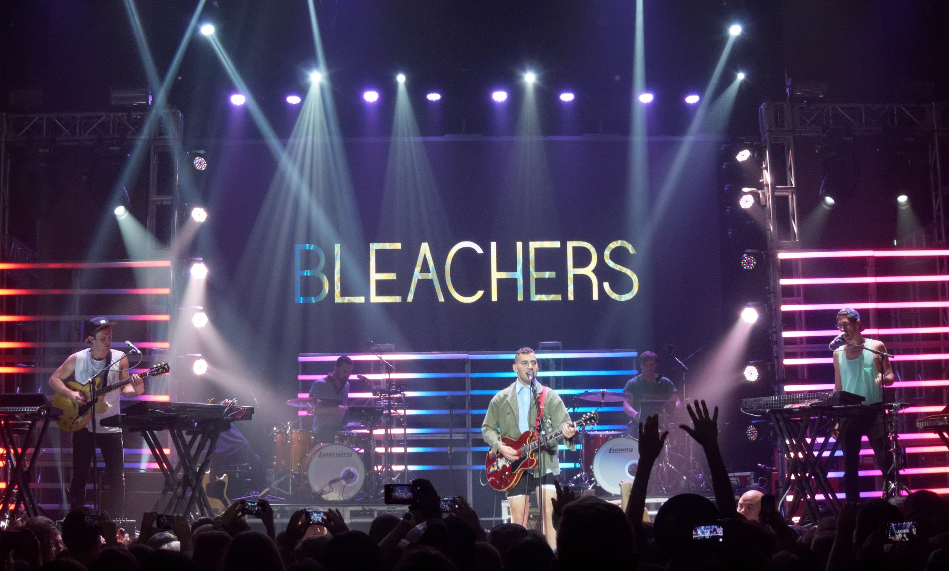 Bleachers performing live at the VMAs "Artist to Watch" Concert at the Avalon Theatre in Hollywood California on Saturday August 23rd, 2014.